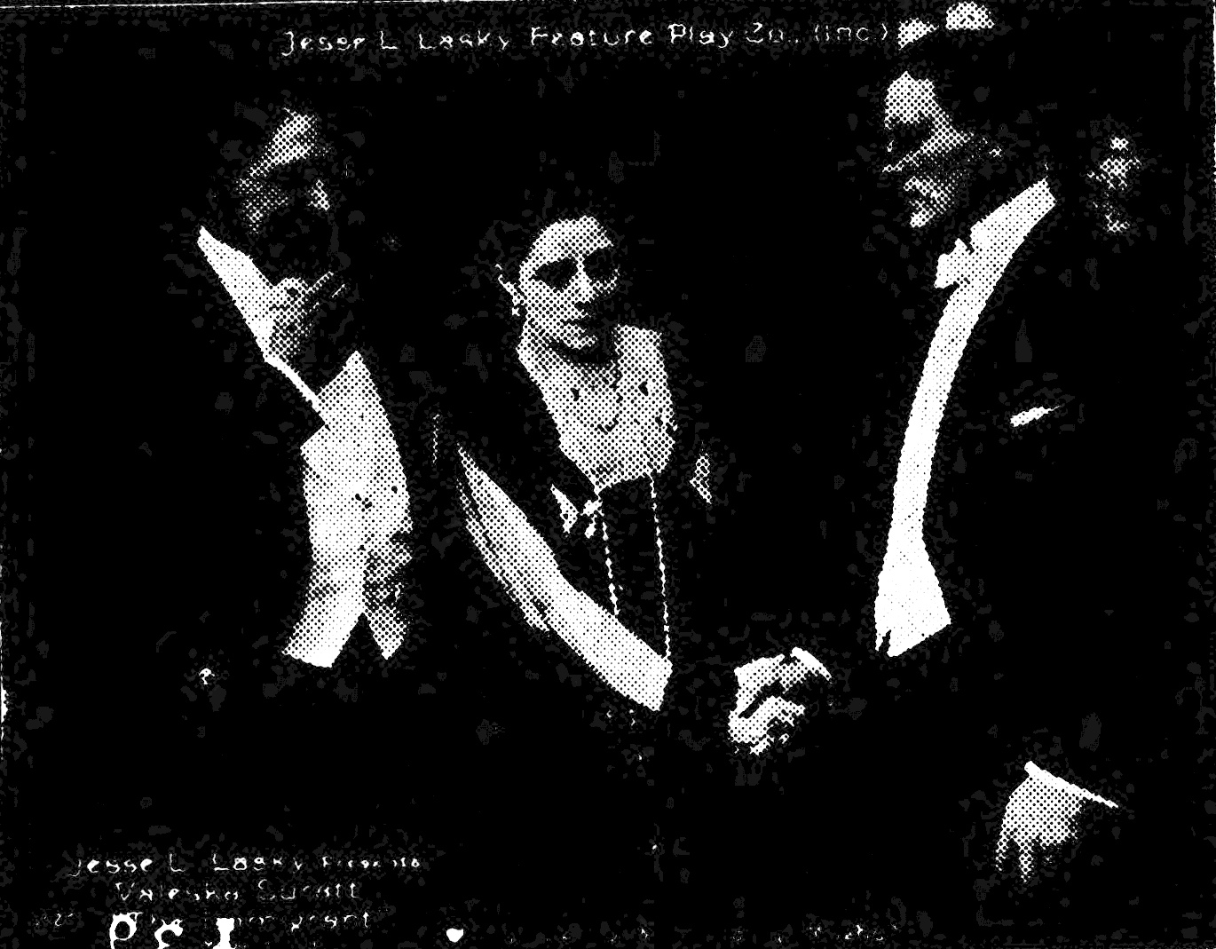 The Immigrant was a 1915 American silent drama film directed by George Melford. This is regretfully a very low quality scan of this image and should be replaced if a better quality scan becomes available.